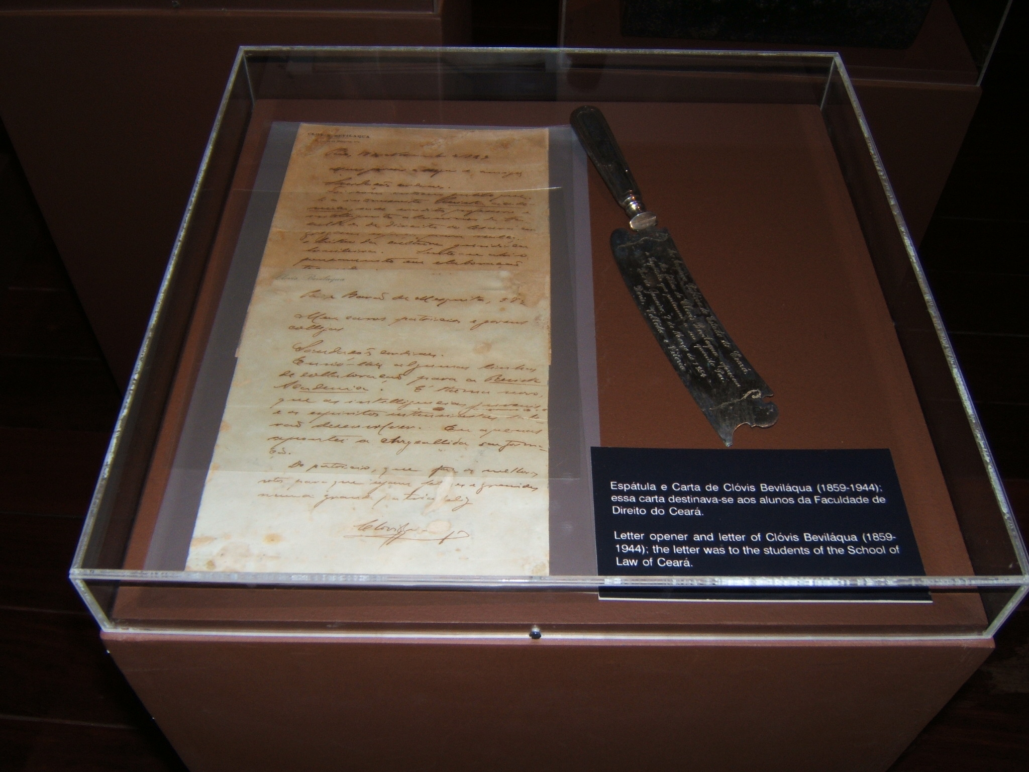 Letter opener that blonged to Clóvis Beviláqua and a letter he sent to the students of the University of Law of Ceará.